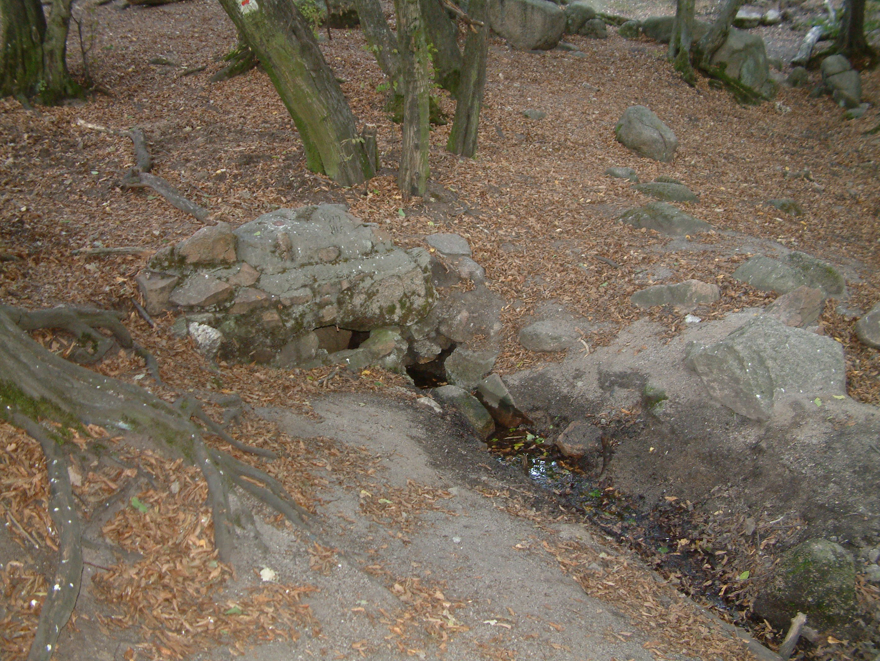 Angelika Spring in Velence Hills, above the village of Sukoró